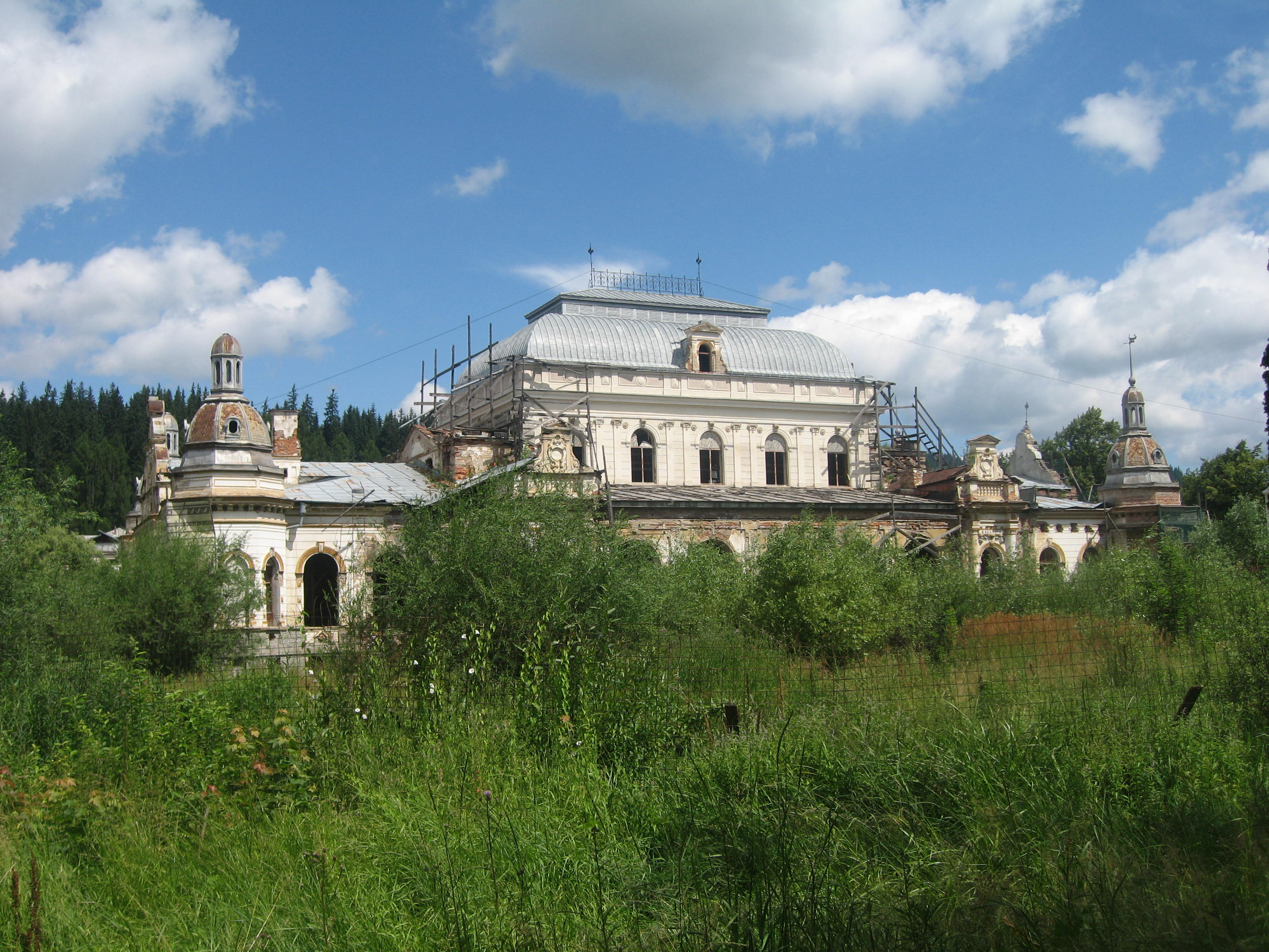 The Casino of Vatra Dornei, Romania